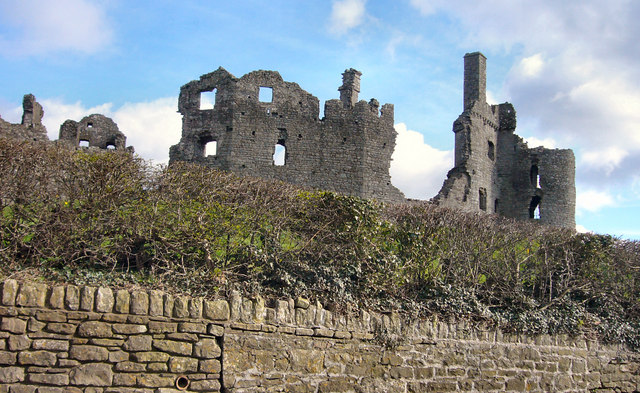 Coity Castle is a Norman castle in the community of Coity Higher near the town of Bridgend, in the County Borough of Bridgend in South Wales.